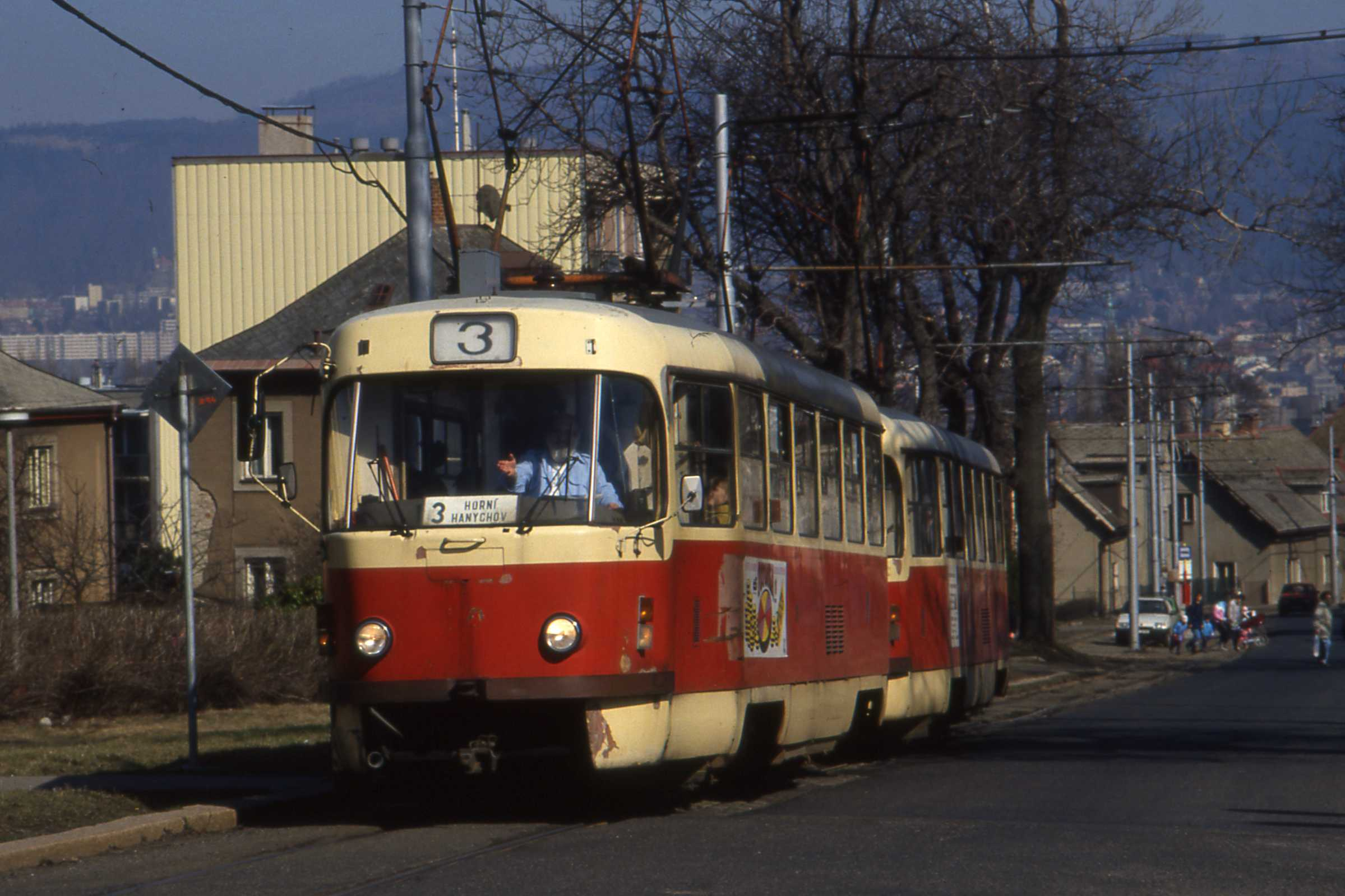 Tatra T3SUCS trams in Liberec, Czech Republic, 1994. A bearded driver of an unidentified Tatra tram in standard livery seems to be giving a lecture to someone as it climbs towards Dolni and Horni Hanychov on the long route 3 to the terminus beneath Jested mountain. or perhaps he is telling me that he is going straight on. At this date, the route was in 1000mm gauge, but it has since been converted to standard gauge, 1435mm. 34 of these Tatra T3SUCS vehicles, numbered 49-83 entered service in Liberec in the mid 1980s. Full list of Liberec vehicles here